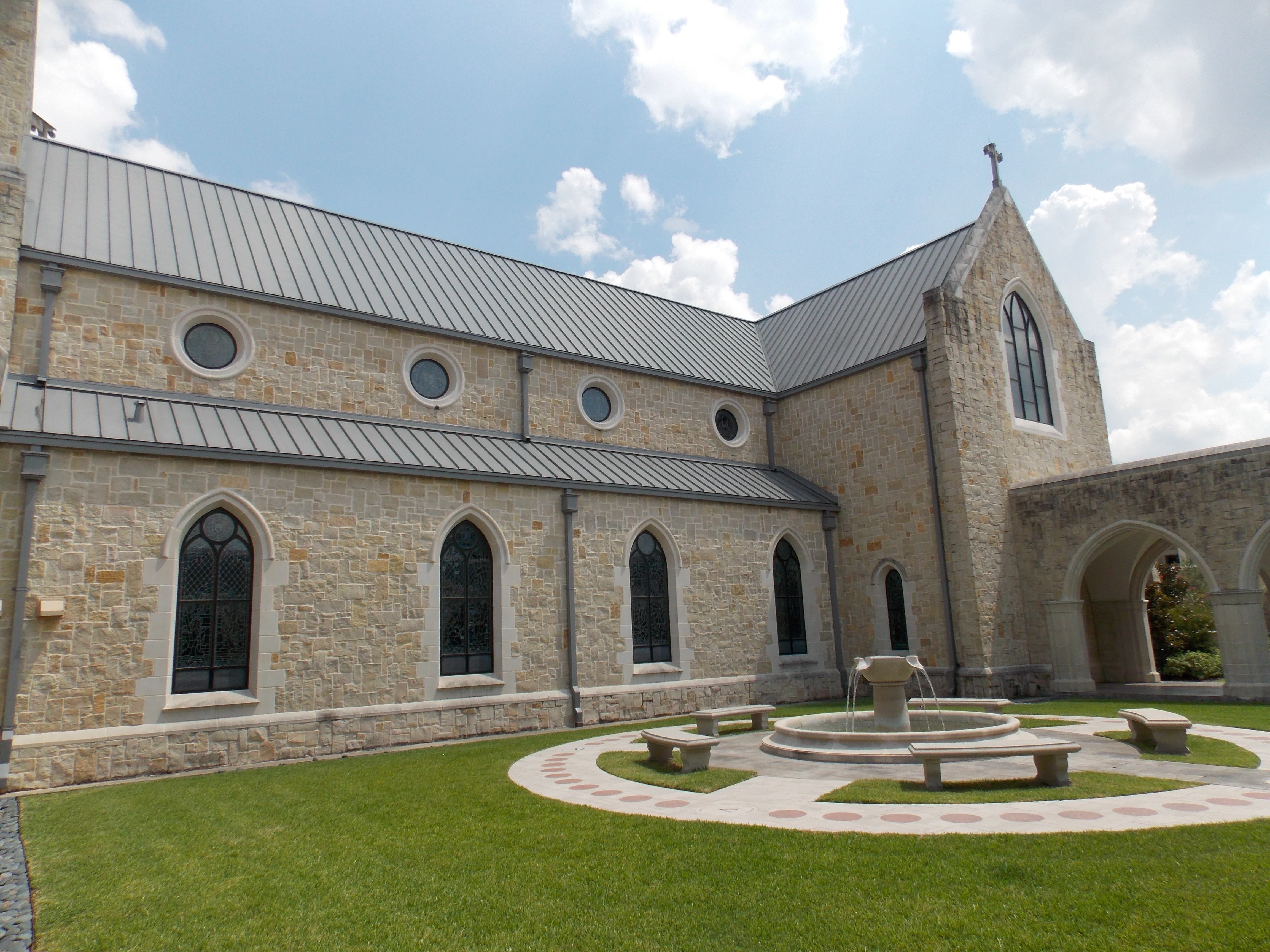 Cathedral of Our Lady of Walsingham of the Personal Ordinariate of the Chair of Saint Peter in Houston, Texas.